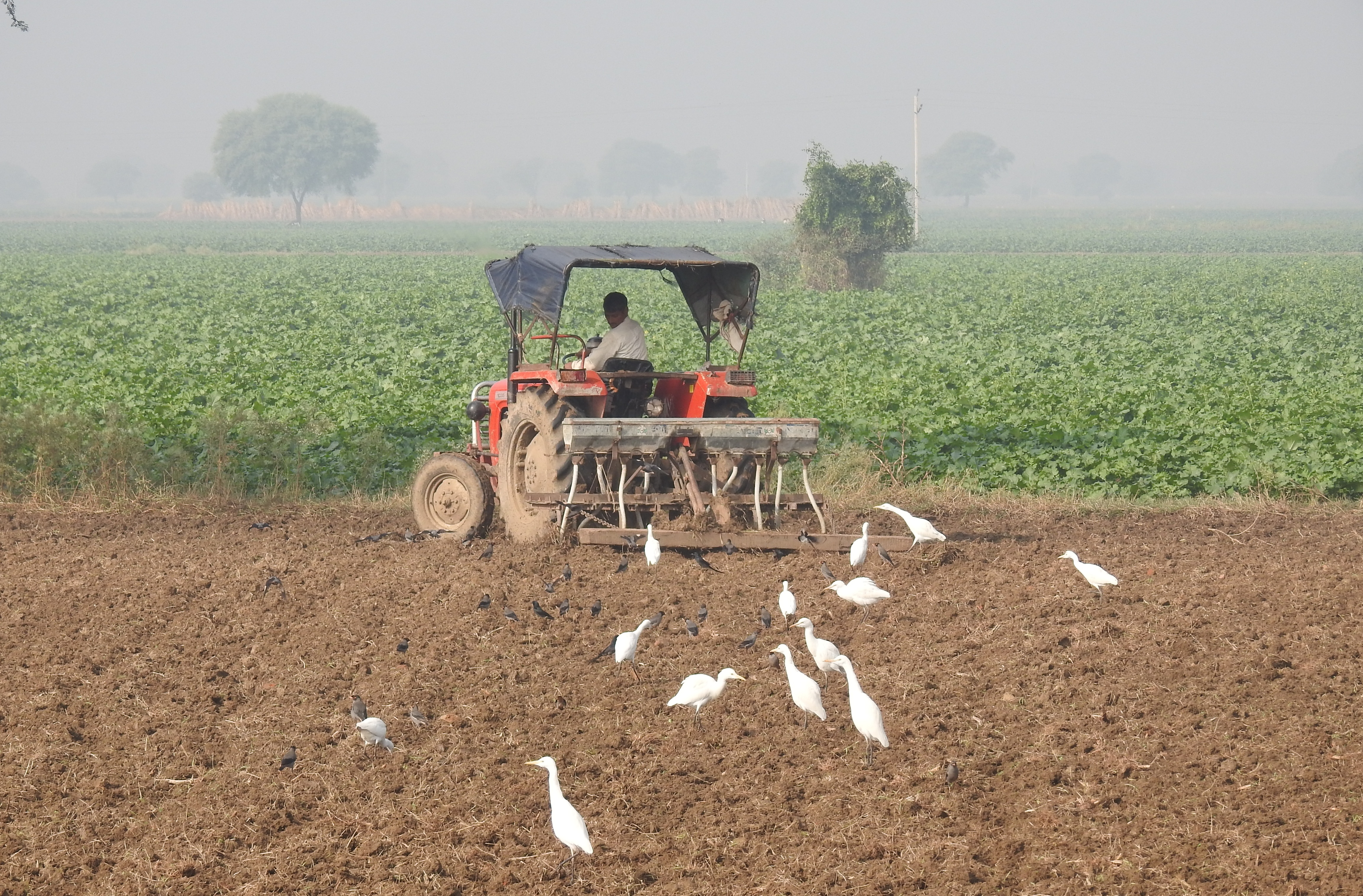 Birds in agriculture. Photo by Dr. Raju Kasambe near Saifei, district Etawah, Uttar Pradesh, India.